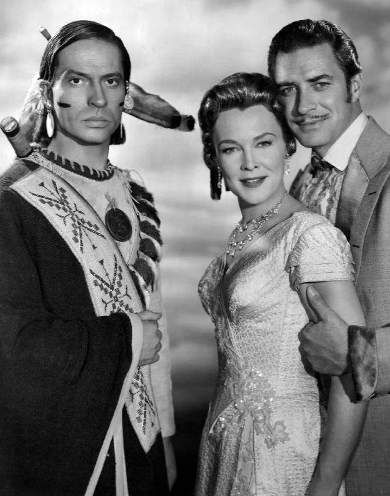 Photo of the main cast of the television program Yancy Derringer. From left- X. Brands (Pahoo-Ka-Ta-Wah), Frances Bergen (wife of Edgar-Madame Francine), Jock Mahoney (Yancy Derringer).